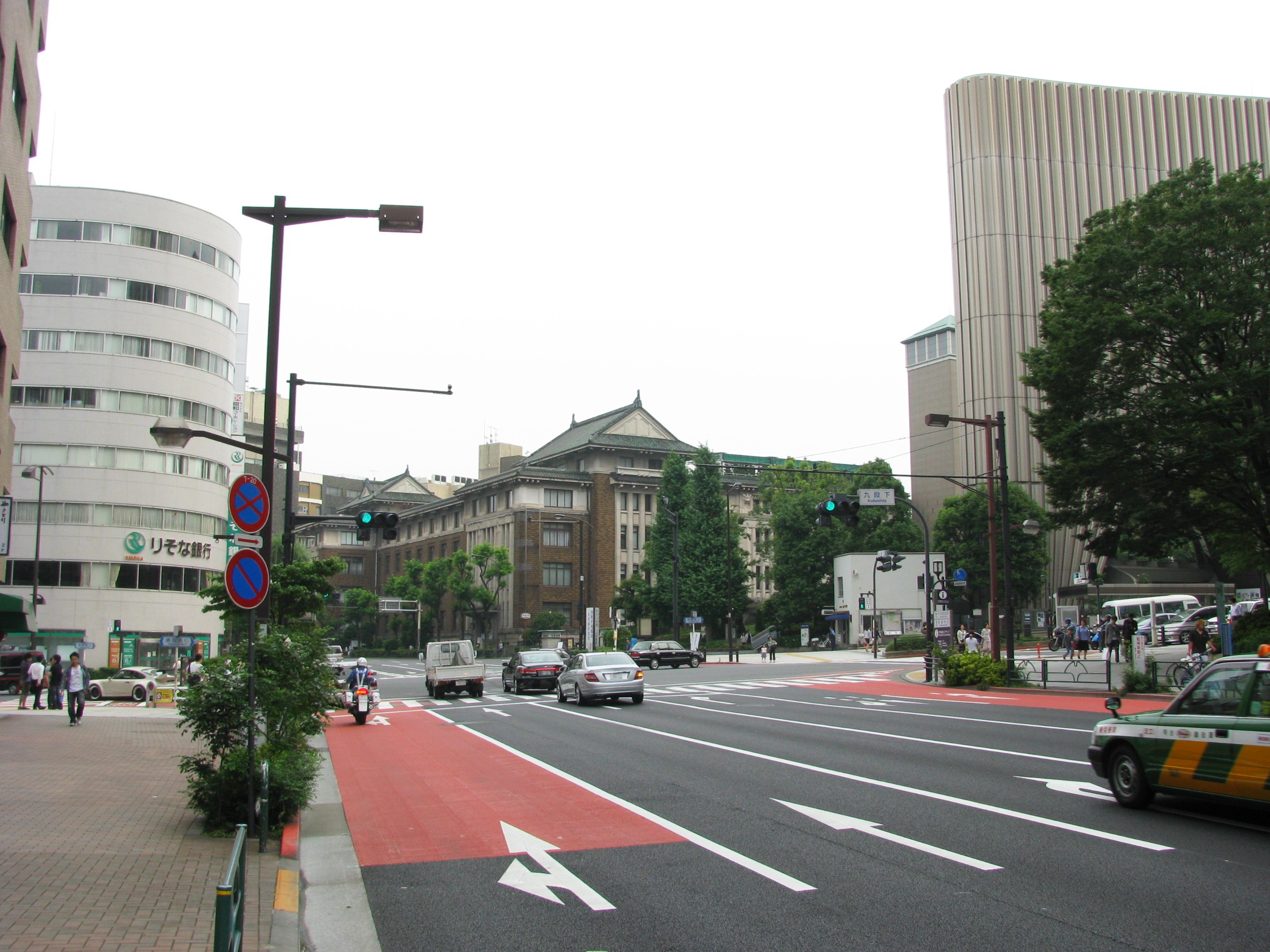 The Kudan-shita intersection is cross point of Tokyo prefectural road route 302, 401 and 8. This location is Kudankita in Chiyoda, Tokyo, Japan.